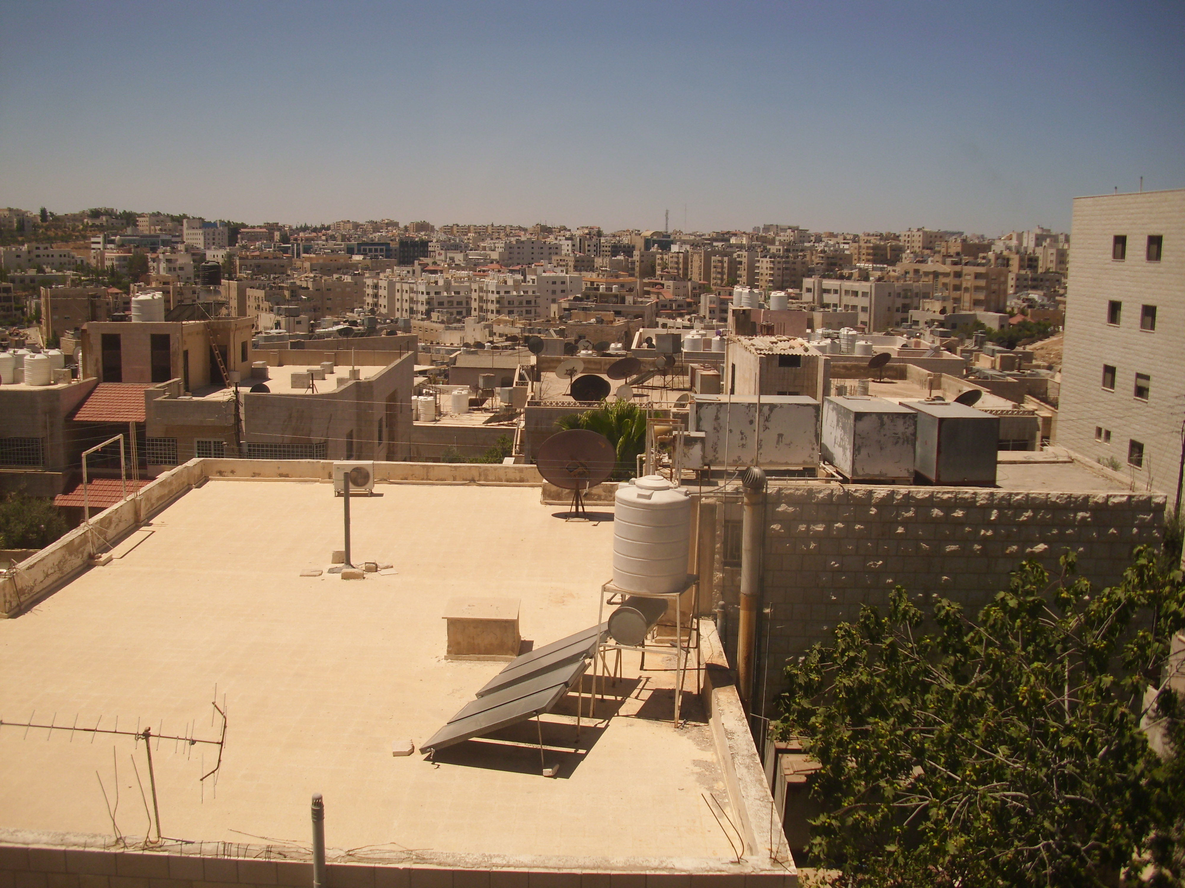 Tela' al Ali, Amman